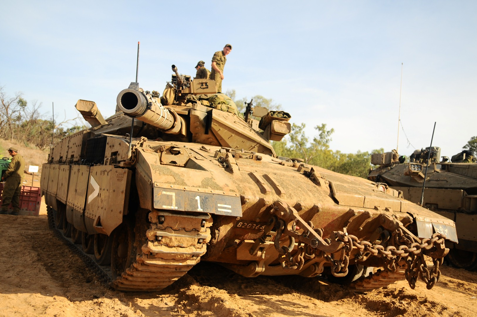 November 16, 2012 On November 14, the IDF launched Operation "Pillar of Defense", a widespread campaign against terror sites and operatives in the Gaza Strip. Over the past several days Hamas has fired hundreds of rockets at Israeli communities, threatening the lives of millions of civilians. Pictured: IDF forces in staging areas around the Gaza Strip, ready for deployment. In the last day the Israeli government has authorized the recruitment of 75,000 reserve soldiers. For more information, see our updating post. For more from the IDF